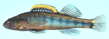 A picture of a Roanoke Darter.